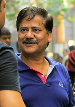 Prem Modi